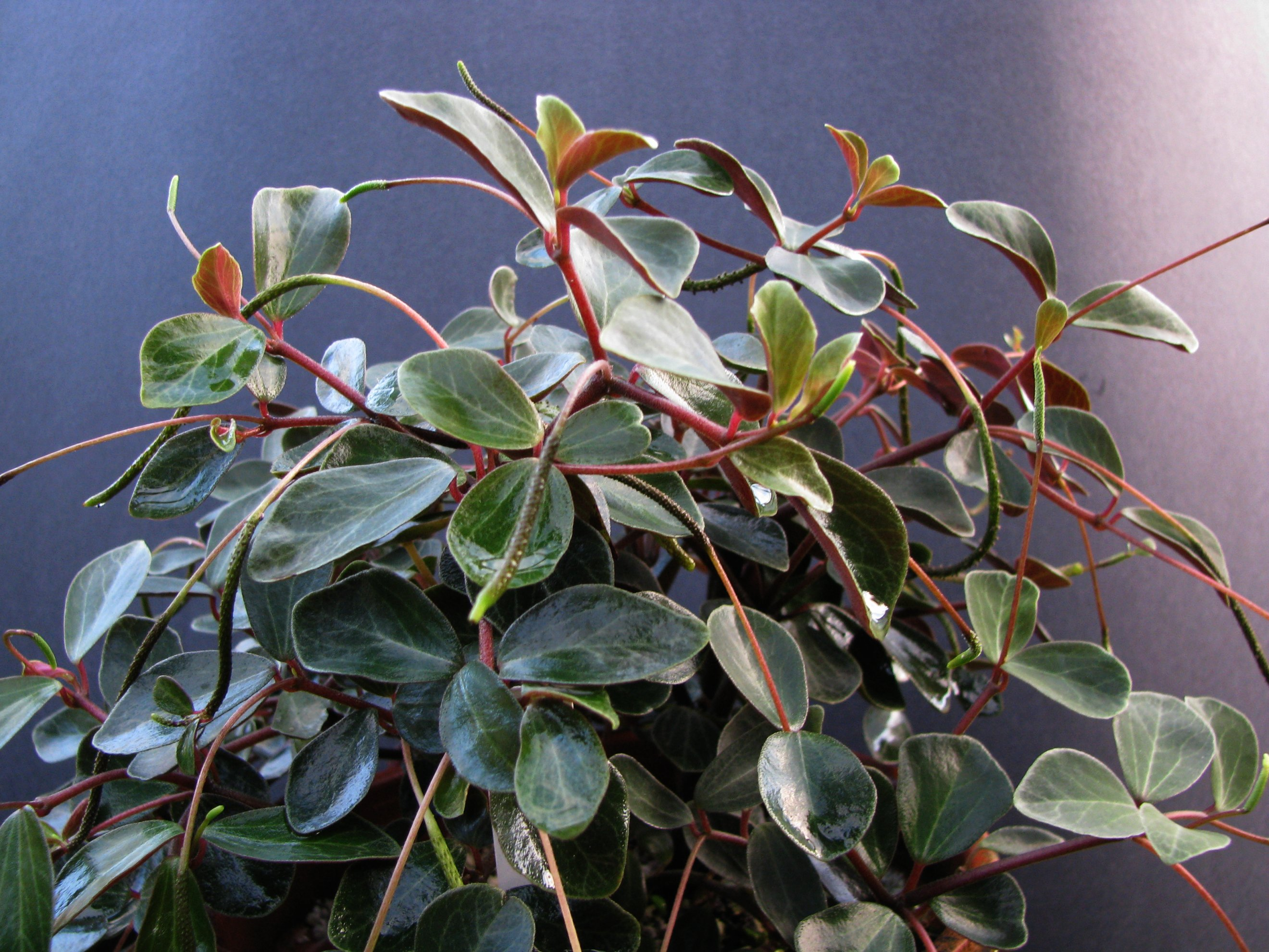 ʻAlaʻala wai nui or Singlespike peperomia Piperaceae Endemic to the Hawaiian Islands Oʻahu (Cultivated)